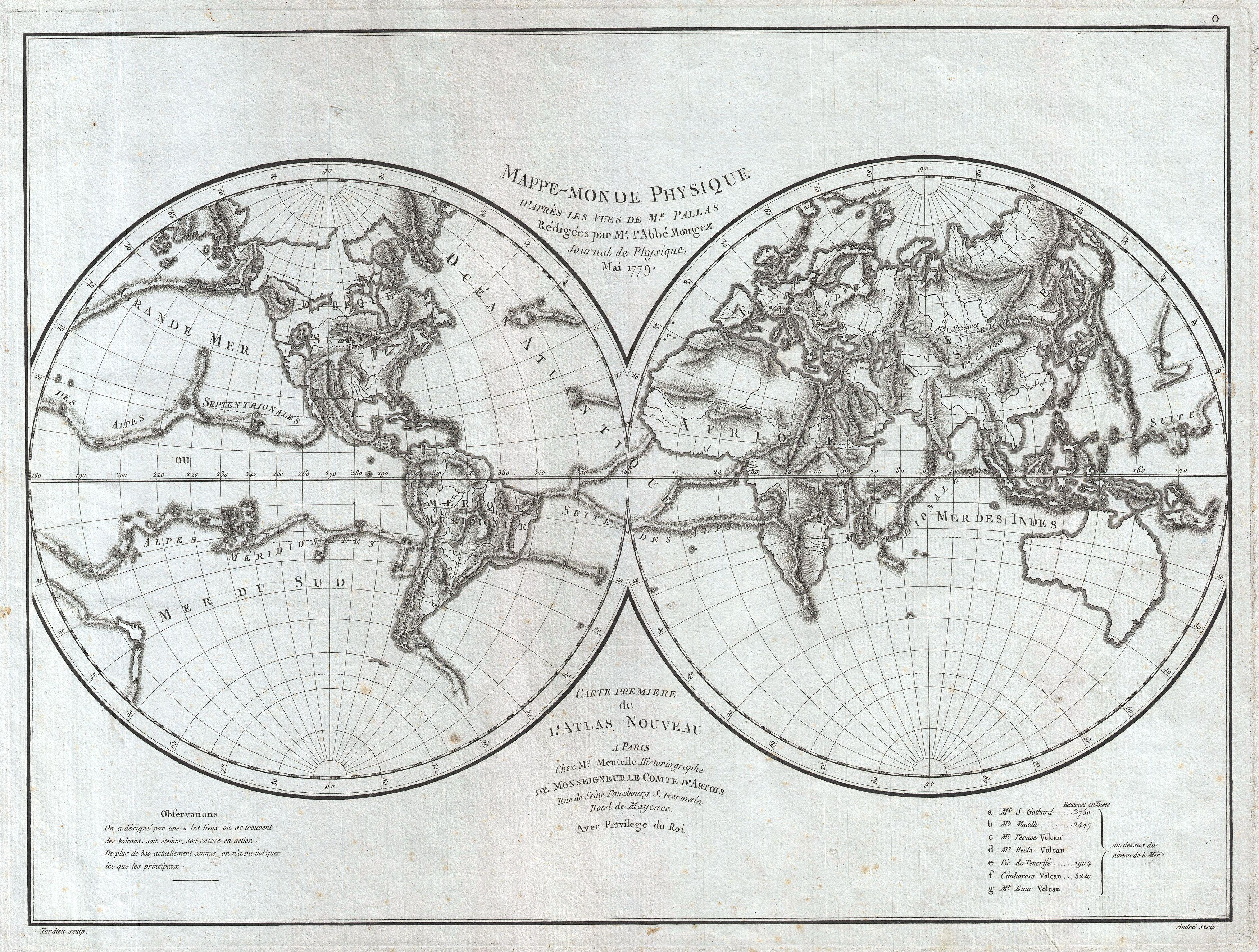 This is a highly unusual 1779 map of the world exhibiting a very peculiar physical topography that reveals mountain ranges both on land and under the sea. The curious undersea mountain ranges displayed here was drawn by Abbe Mongez to illustrate the geographical theories of Peter Simon Pallas, a German polymath living in Russia, who speculated that mountain ranges originated from a series of interterrestial explosions (volcanoes), many of which are noted on the map as asterisks. Aside from Pallas’s unusual marine topography, this map follows many of the speculative cartographic conventions of the late 18th century. These include the presence of a large inland sea in the western part of North America, a series of navigable channels in modern day Canada (harkening to the mythical Admiral De Fonte’s journals), and a mountainous Nile source in Africa. Van Diemen’s Land or Tasmania is attached to the mainland of Australia. A southern continent is only tenuously suggested by two speculative landmasses shown in the southern Indian Ocean and just south of Tierra del Fuego. This map was first drawn by Abbe Mongez, then engraved by Ambrose Tardieu for inclusion as title plate, number 0, or folio 1 in Mentelle’s 1779 Atlas Universel A curious side note. The Abbe Mongez, who drew this map, was the geologist and naturalist on La Perouse’s ill-fated expedition to the Pacific. The Perouse expedition shipwrecked in 1788 on the island of Vanikoro and, after living on the island for a short time, vanished entirely. Recently the remains of the Perouse wreckage, including a mysterious skull, were discovered on the Vanikoro reefs. Forensic scientists have reconstructed the facial features of the skull which many believe to be none other than the Abbe Mongez.